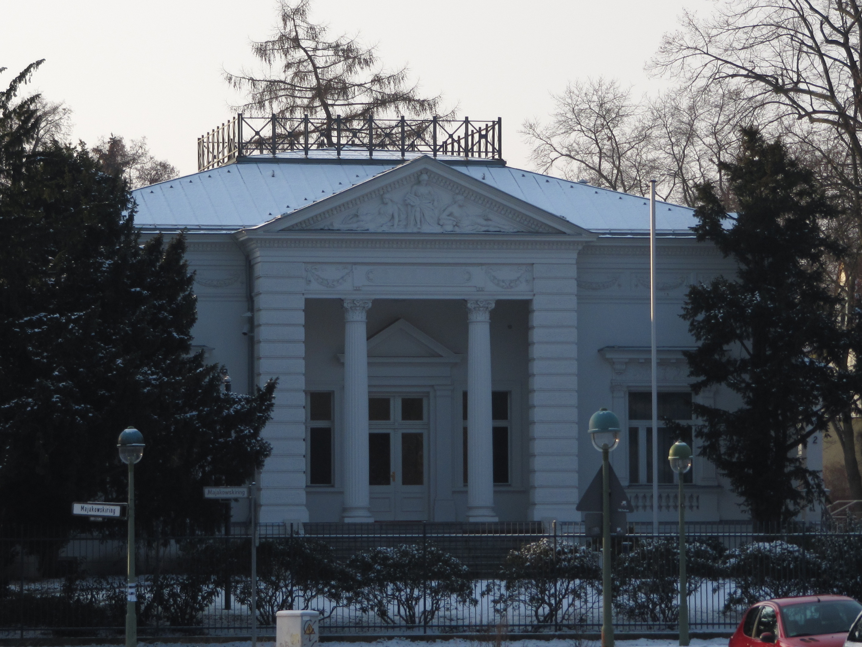 Majakowskiring 2, Berlin-Niederschönhausen